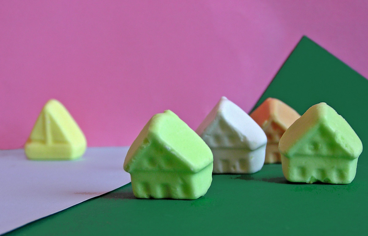 Dutch candy ('schuimpjes') shaped like little houses.